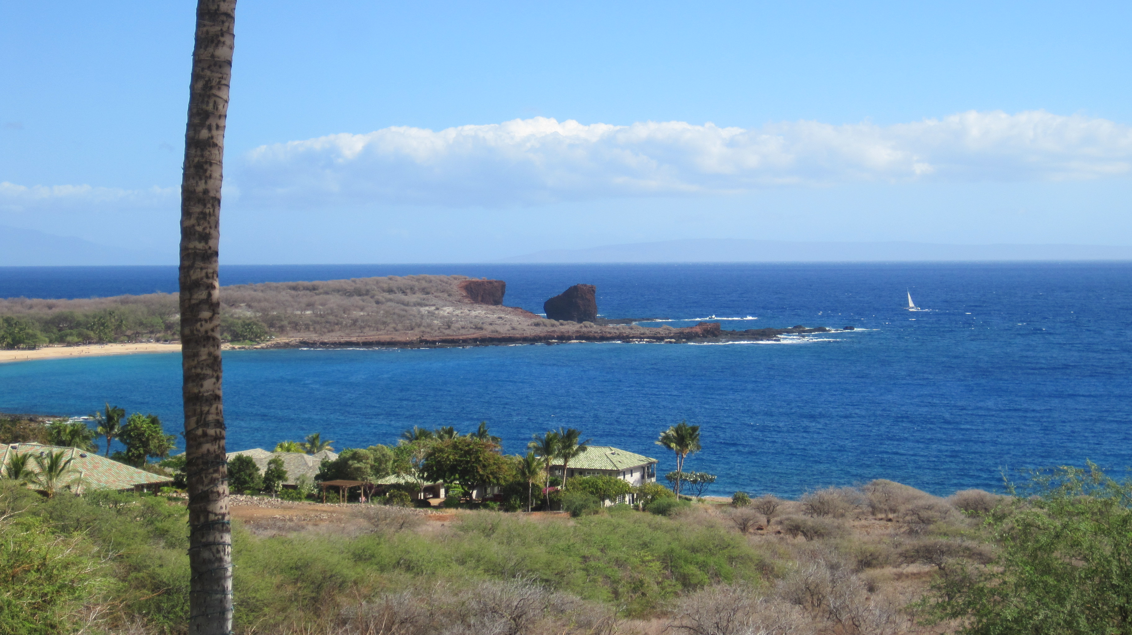 Puʻupehe Platform Rock (also known as Sweetheart Rock) viewed from Mānele Bay Resort golf clubhouse, Lānaʻi, Hawaiʻi, on National Register of Historic Places